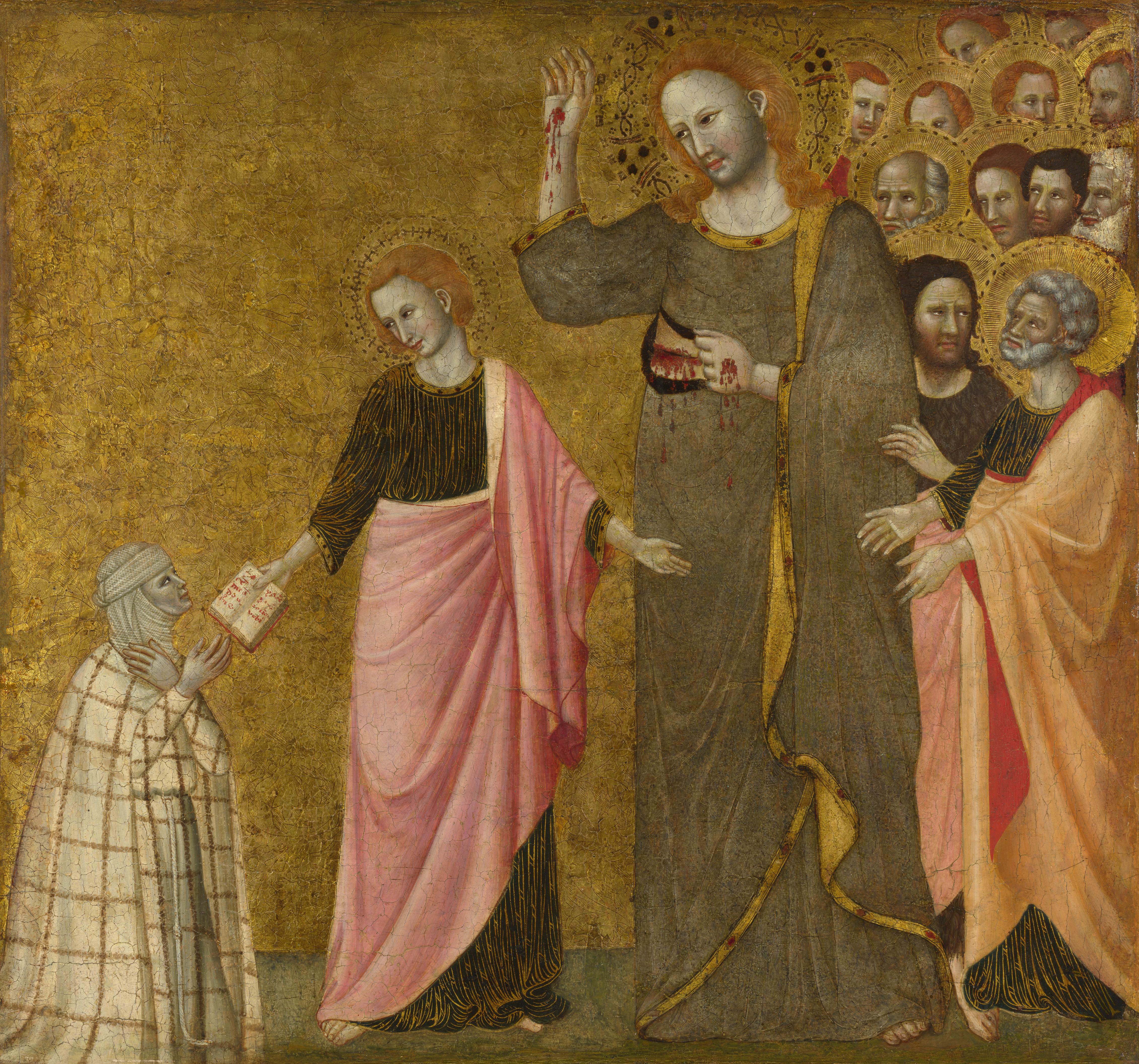 The Vision of the Blessed Clare of Rimini / Francesco da Rimini (Master of the Blessed Clare). ca. 1333-1340.